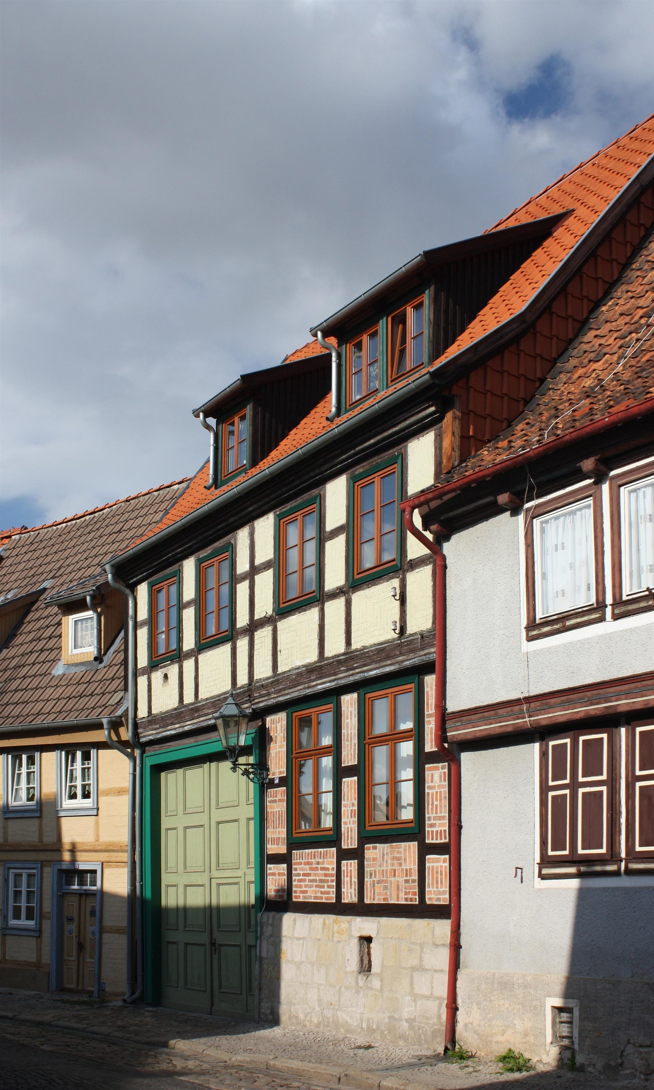 This is a photograph of an architectural monument.It is on the list of cultural monuments of Quedlinburg Augustinern 50 in Quedlinburg